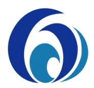 Minamiise Mie chapter